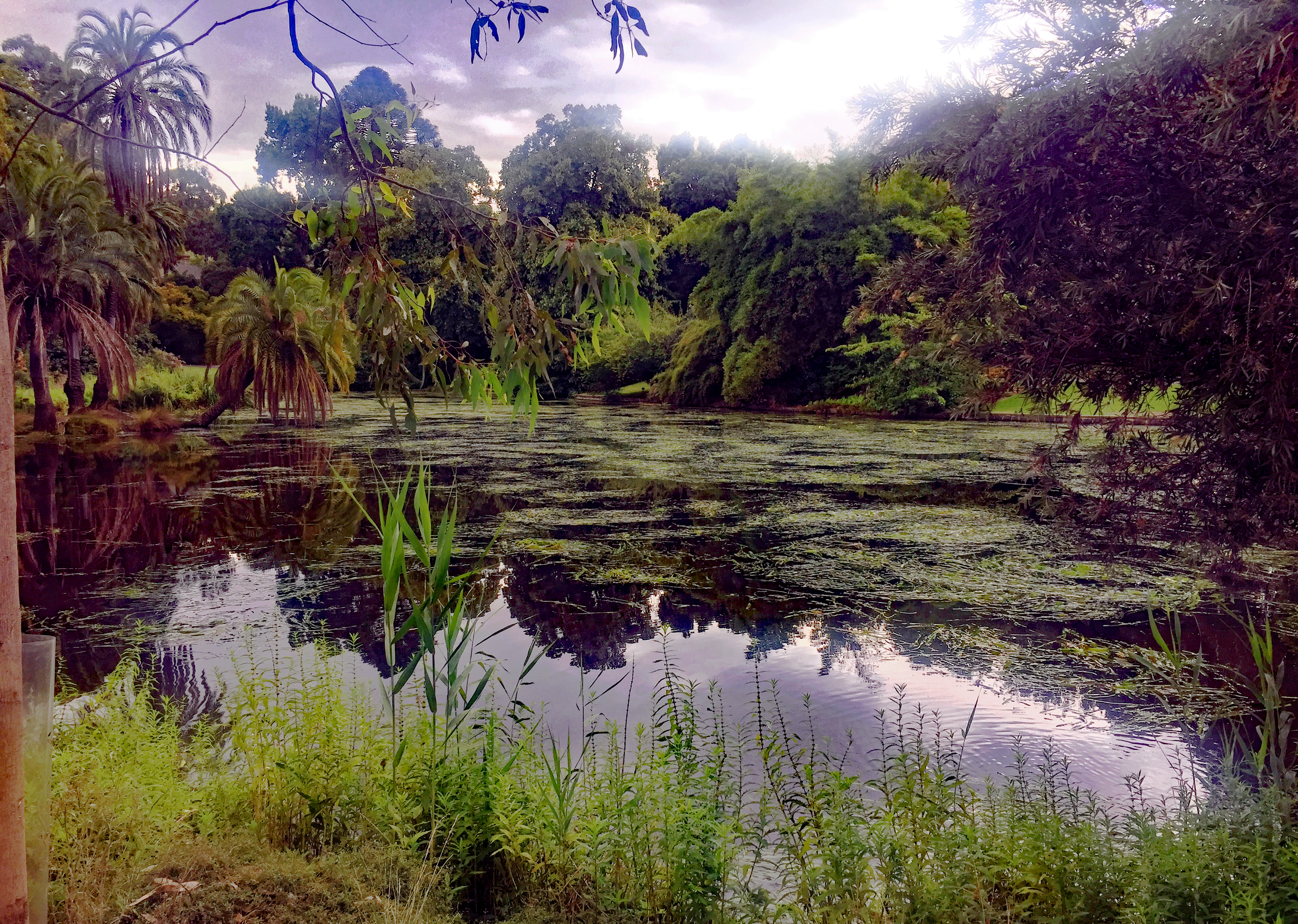 View of Ornamental Lake in Autumn